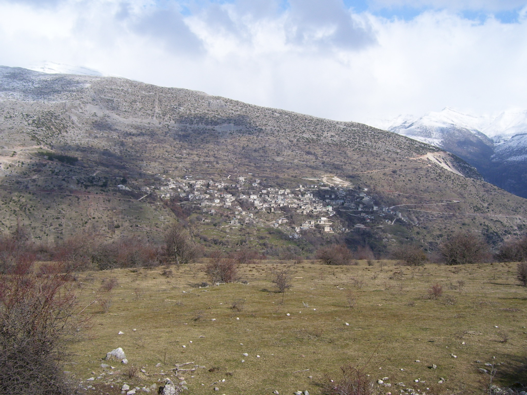 Village in Ioannina prefecture